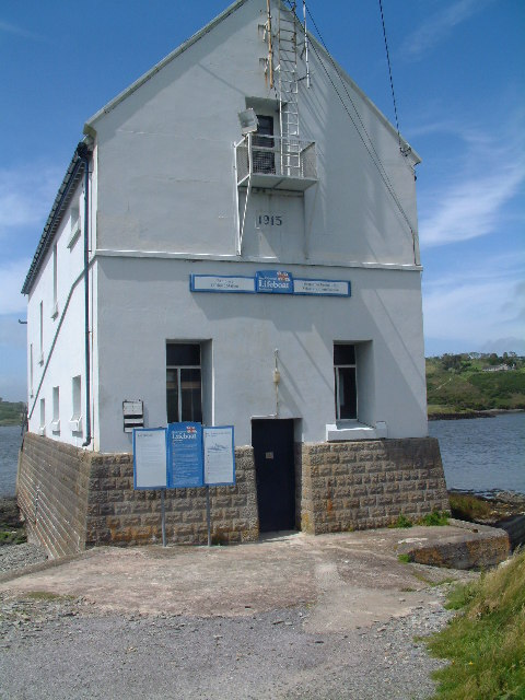 Baltimore Lifeboat Station. Baltimore RNLI Lifeboat Station, West Cork.